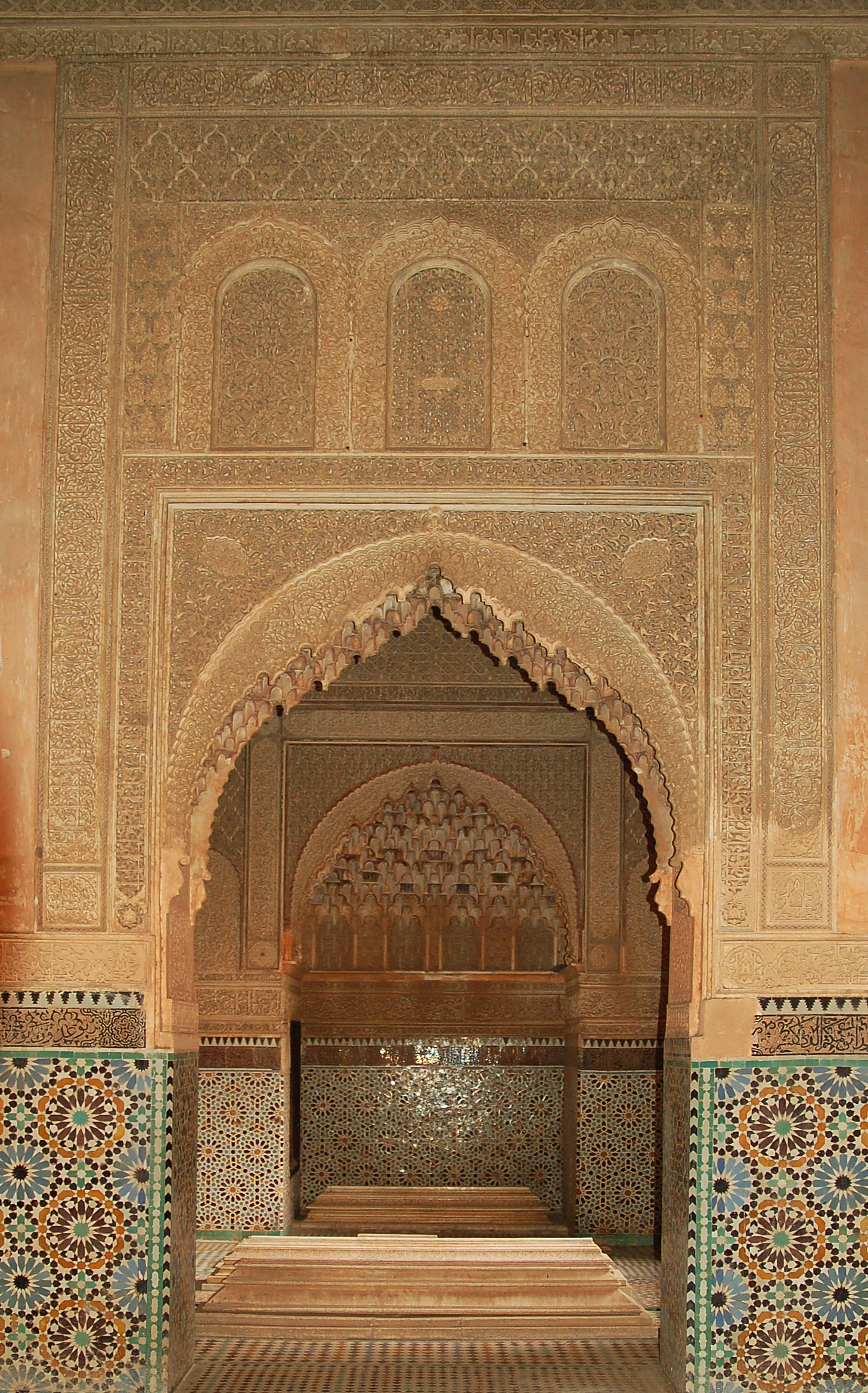 Maroc Marrakech city Saadiens tombs